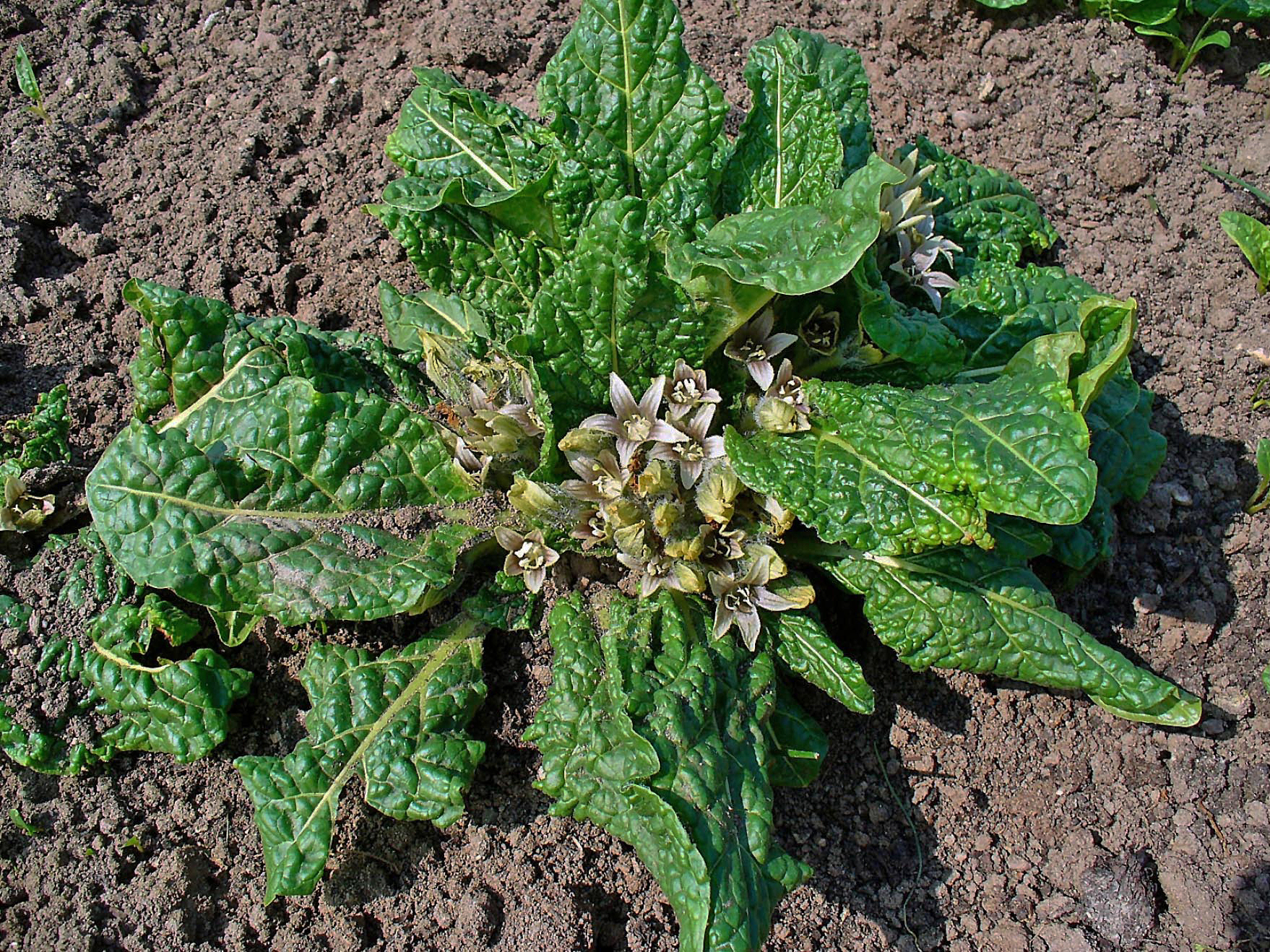 Mandragora officinarum, Common Mandrake, habitus.